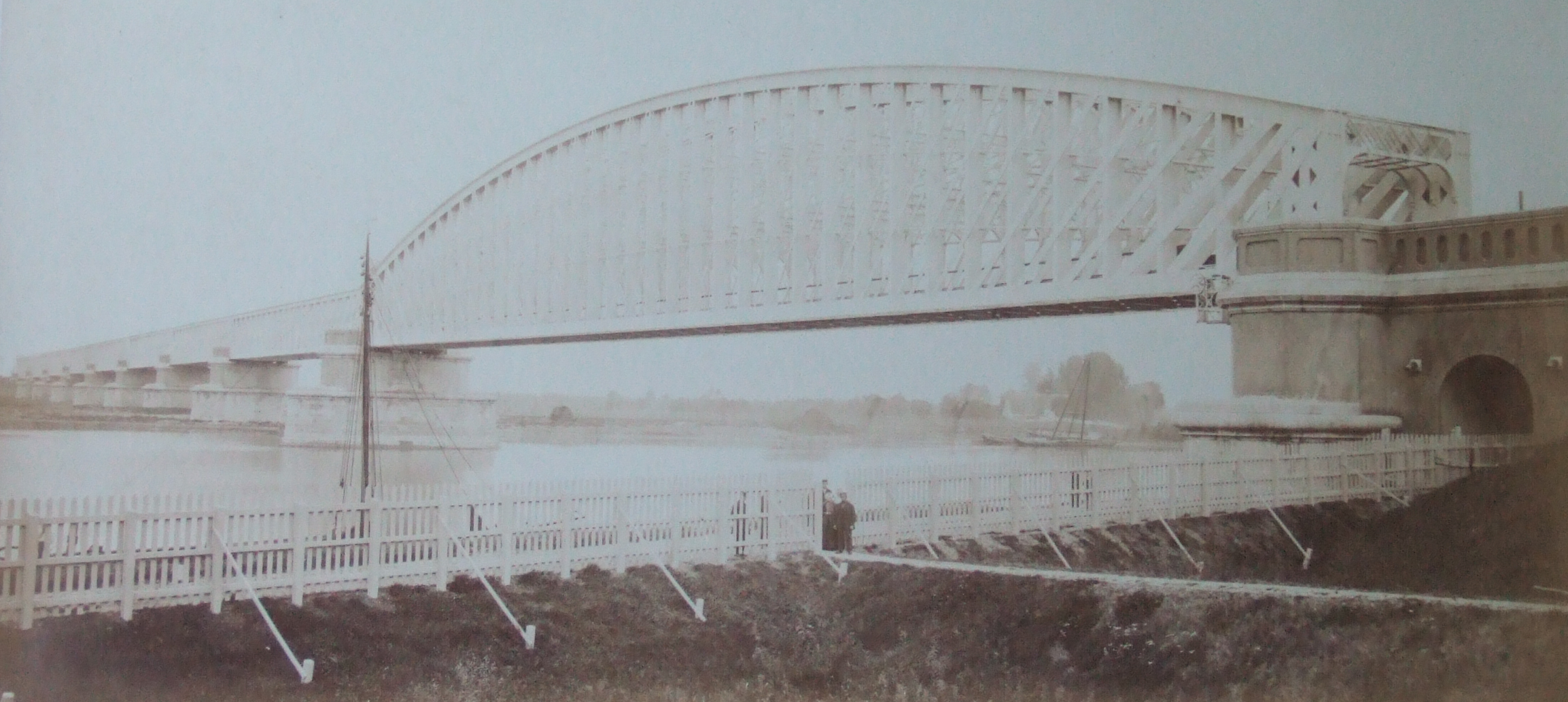 Railway bridge over the river Lek near Culemborg, The Netherlands, photographed by J. H. Schönscheidt on August 30, 1868. The bridge was built between 1863 and 1868, and replaced in 1983. The main span was 154,5 meter.